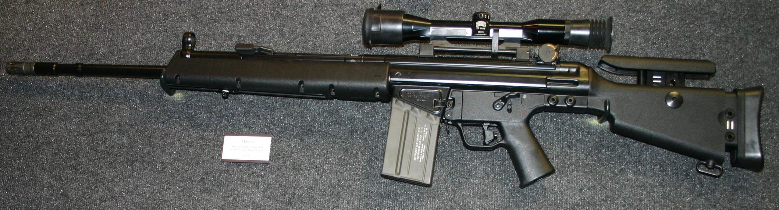 MSG-90 on display